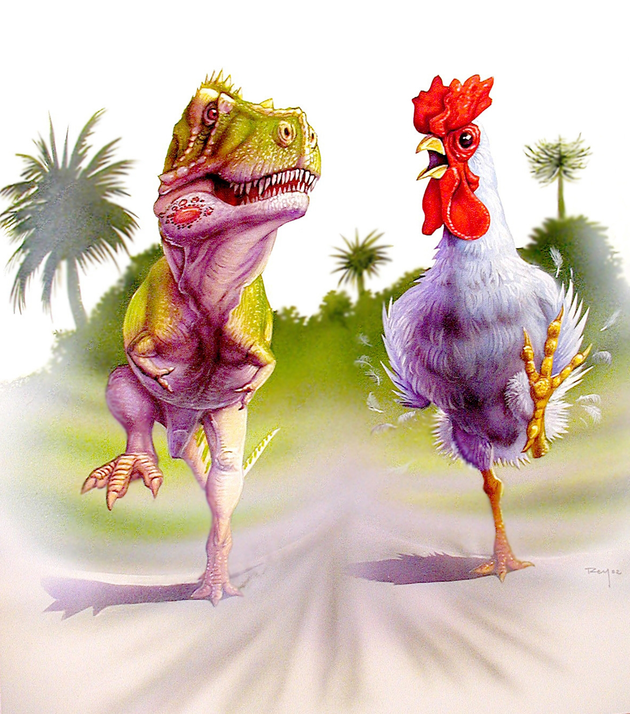 T. rex trotting along beside a T. rex-sized chicken. Calculations of the muscle mass required to power a fast-running T. rex showed that this was impossible—a 6-tonne chicken would have needed leg muscles making up almost 100% of its body mass. Realistically, T. rex had the muscles to run at about 5 meters per second (18 km/h, 11 mph) [26].